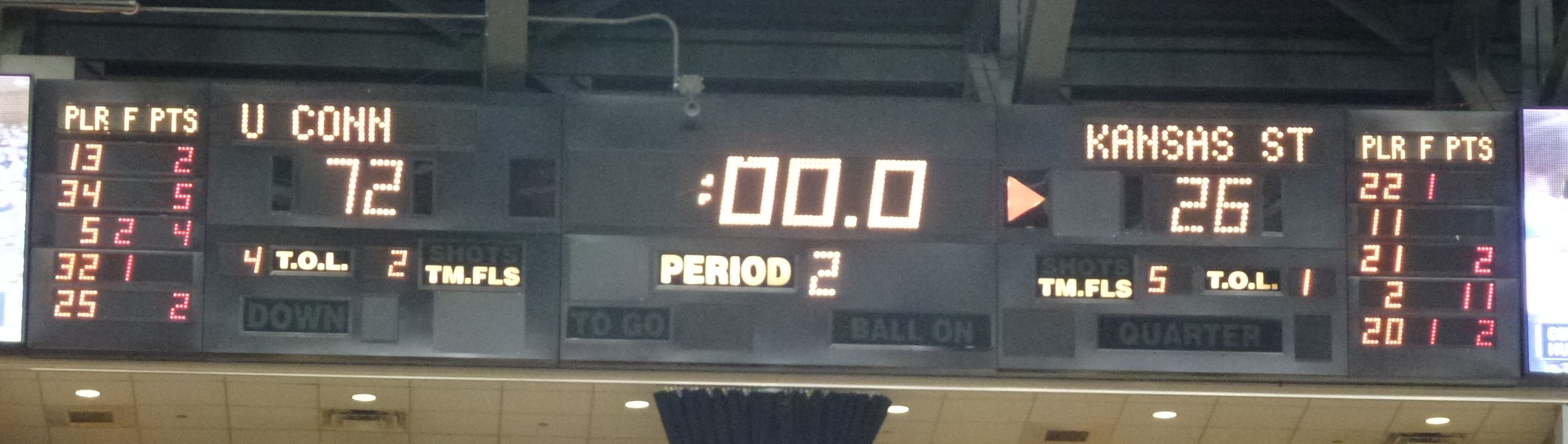 UConn versus KState lowest ever NCAA points allowed. No team in an NCAA tournament has ever held an opponent to as few points